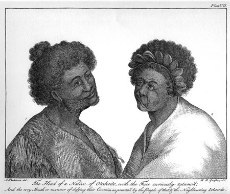 This is an image of a print entitled "The Head of a Native of Otaheite, with the Face curiously tataow'd; And the wry mouth, or manner of defying their Enemies as practis'd by the People of that, & the Neighbouring Islands." by Sydney Parkinson.